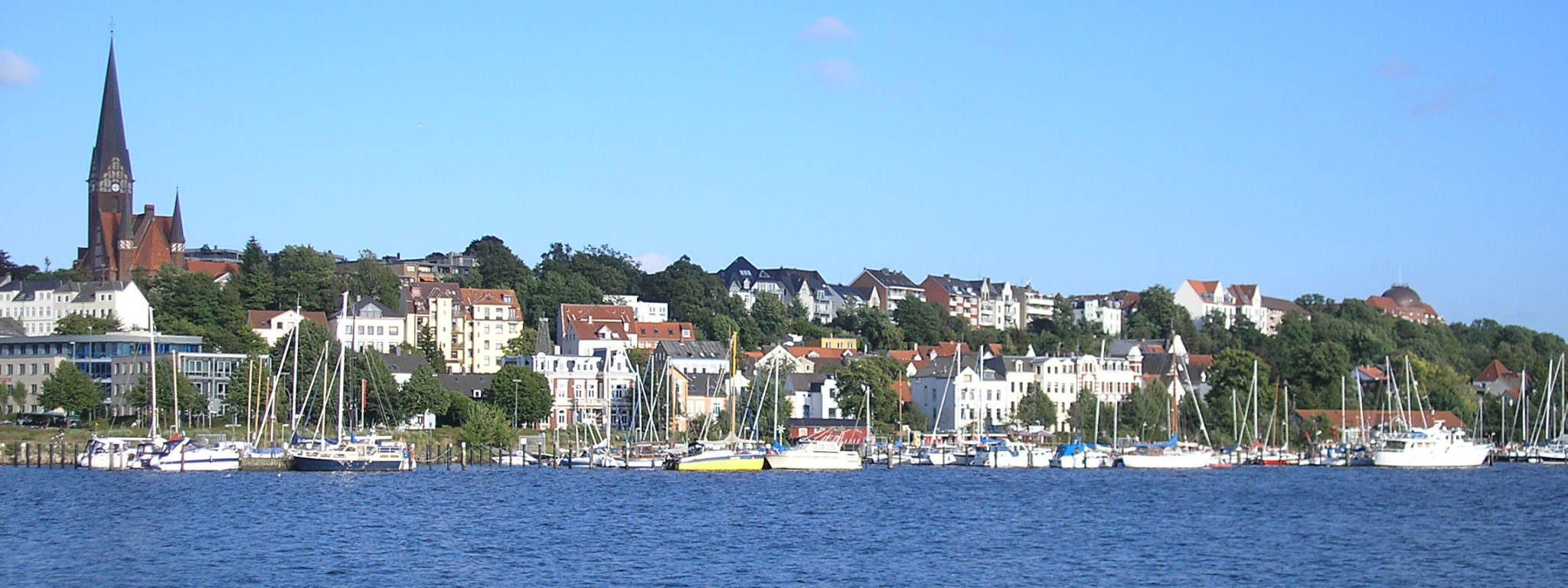 Flensburg harbour Location: Flensburg, Germany